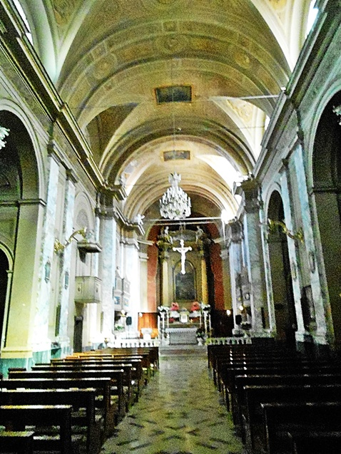 the nave